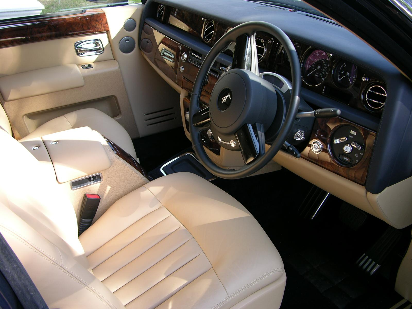 2007 Rolls Royce Phantom